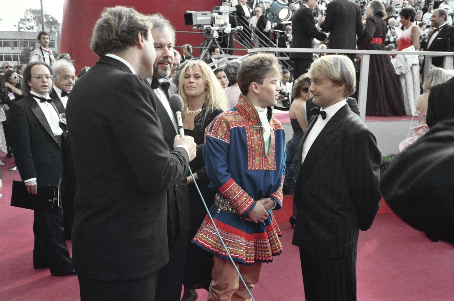 1988 Academy Awards - Mikkel Gaup and Nils Gaup, nominated for best foreign film Pathfinder. NOTE: Permission granted to copy, publish, broadcast or post any of my photos, but please credit "photo by Alan Light" if you can. Thanks. Scanned from the original 35MM film negative.